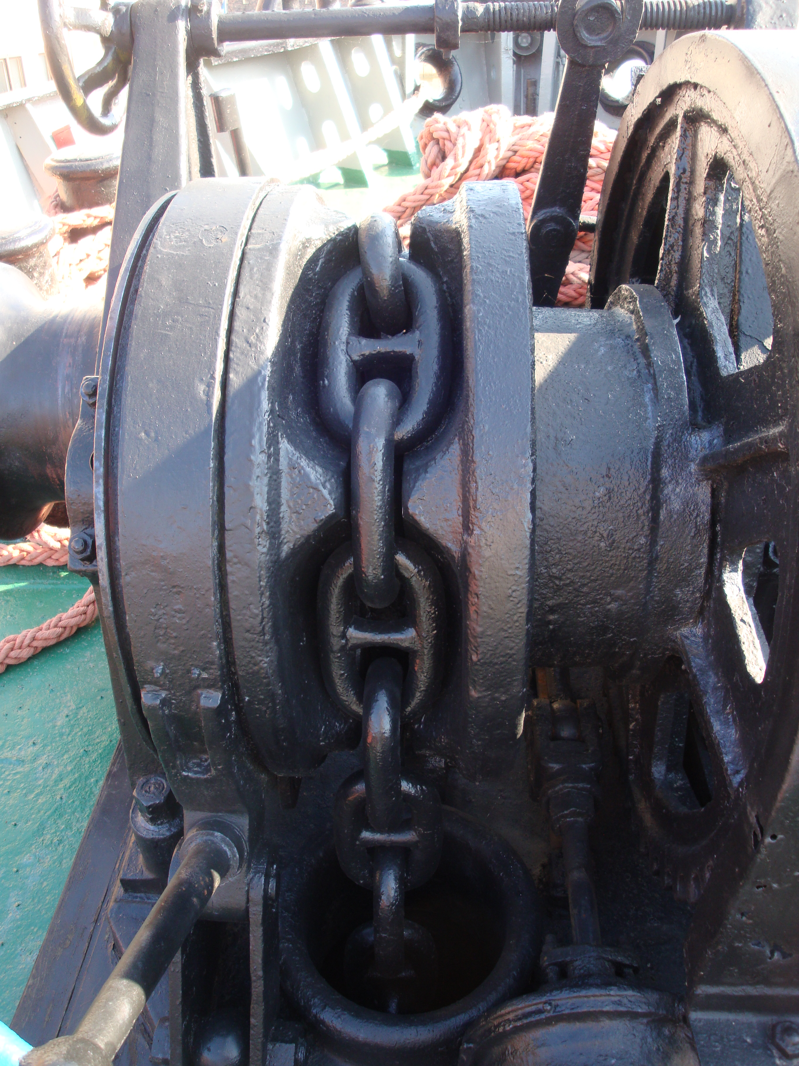 Museal ship S/S Sołdek in Gdańsk, Poland